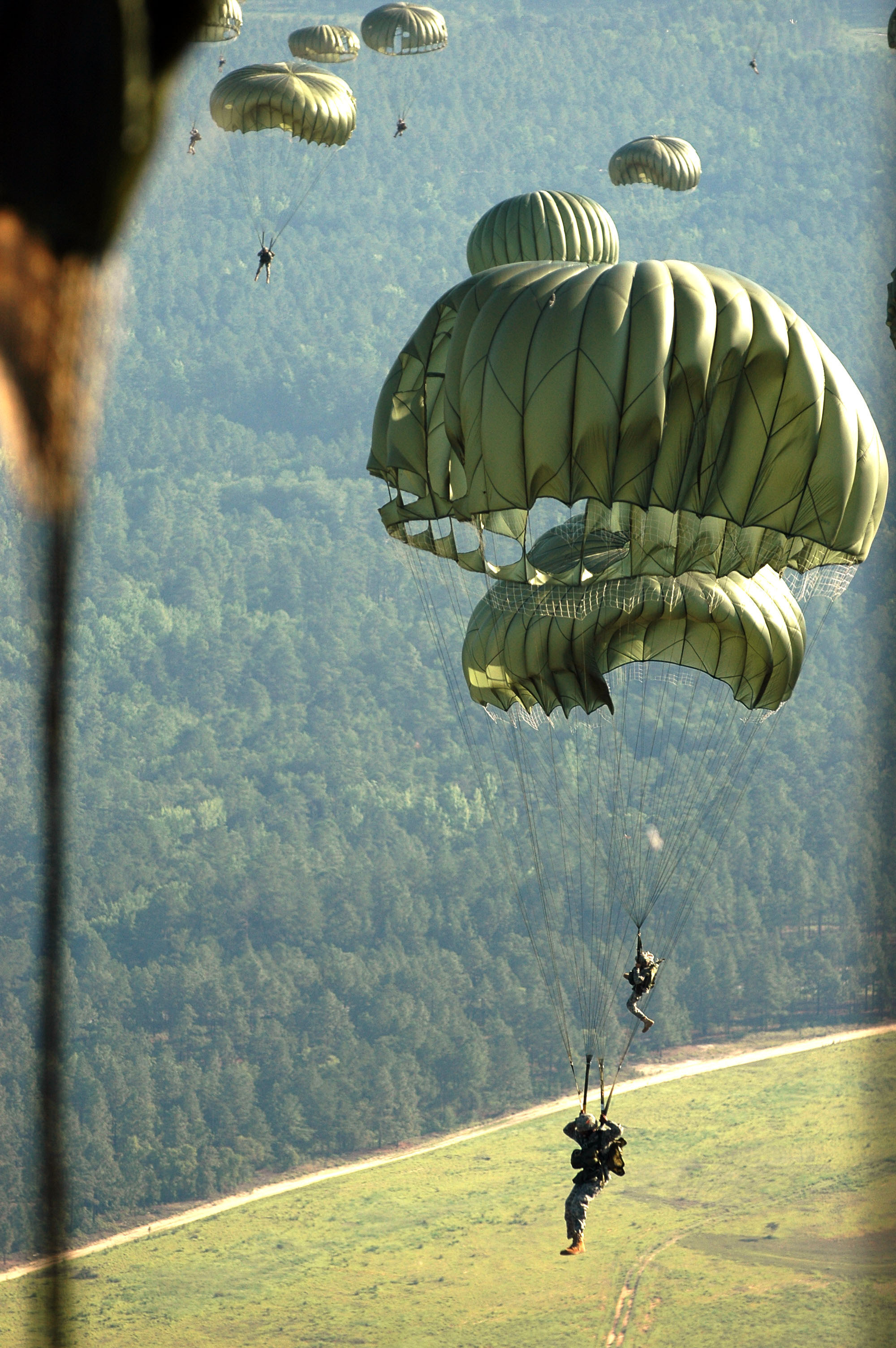 Paratroopers fly through the air after jumping from the tailgate of a C-130 Hercules airplane on Fort Bragg, N.C., June 11. The tailgate jump was part of the XVIII Airborne Corps Commanding General’s Retention Incentive Jump. “This is the best job in the world,” said Staff Sgt. Timothy W. Jeffrey, a career counselor with the 82nd Airborne Division, Headquarts Company. “We get paid to jump out of planes.”